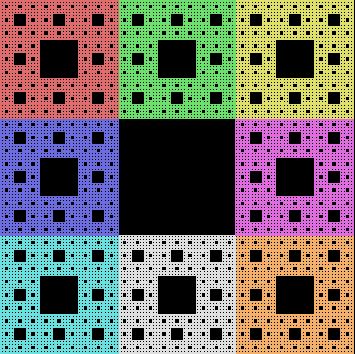 A Sierpinski carpet based on eight smaller copies of a Sierpinski triangle